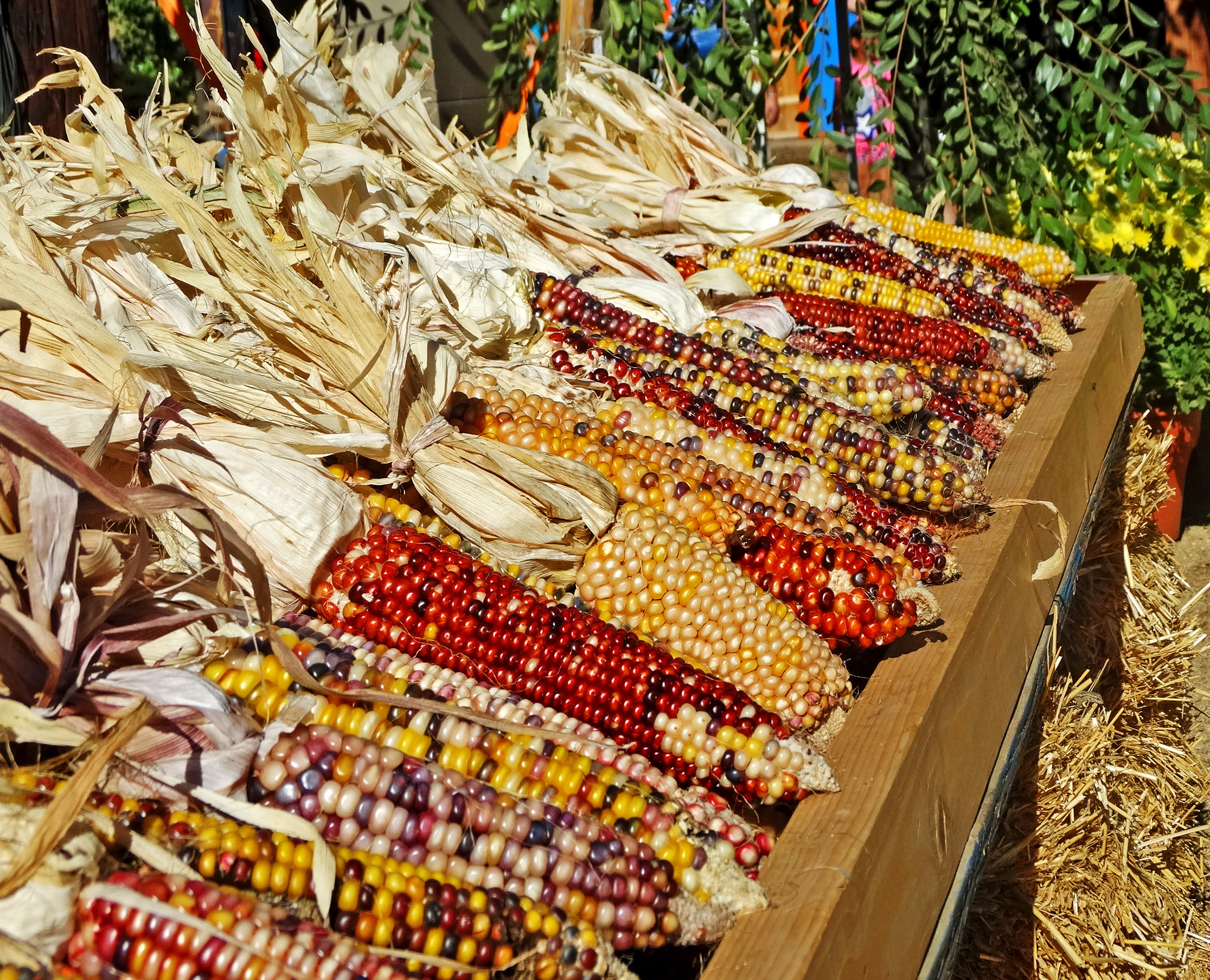 (1 in a multiple picture album) Indian Corn is so pretty. The variety of colors in the kernels as fascinating. I don't think any two are ever alike.